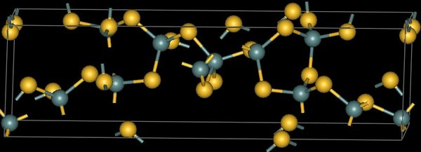 GeS2 structure; Yellow atoms are sulfur